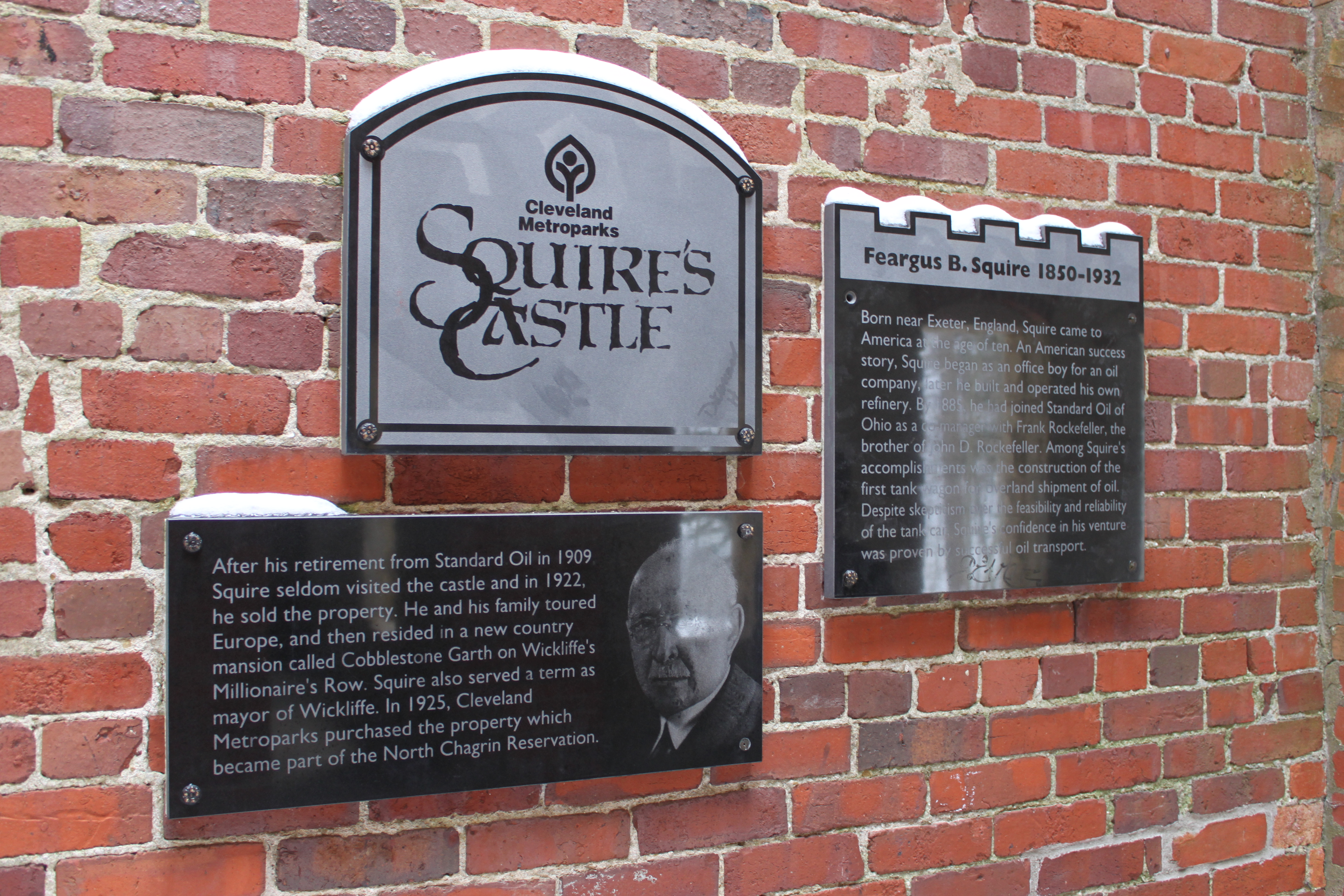 letrero